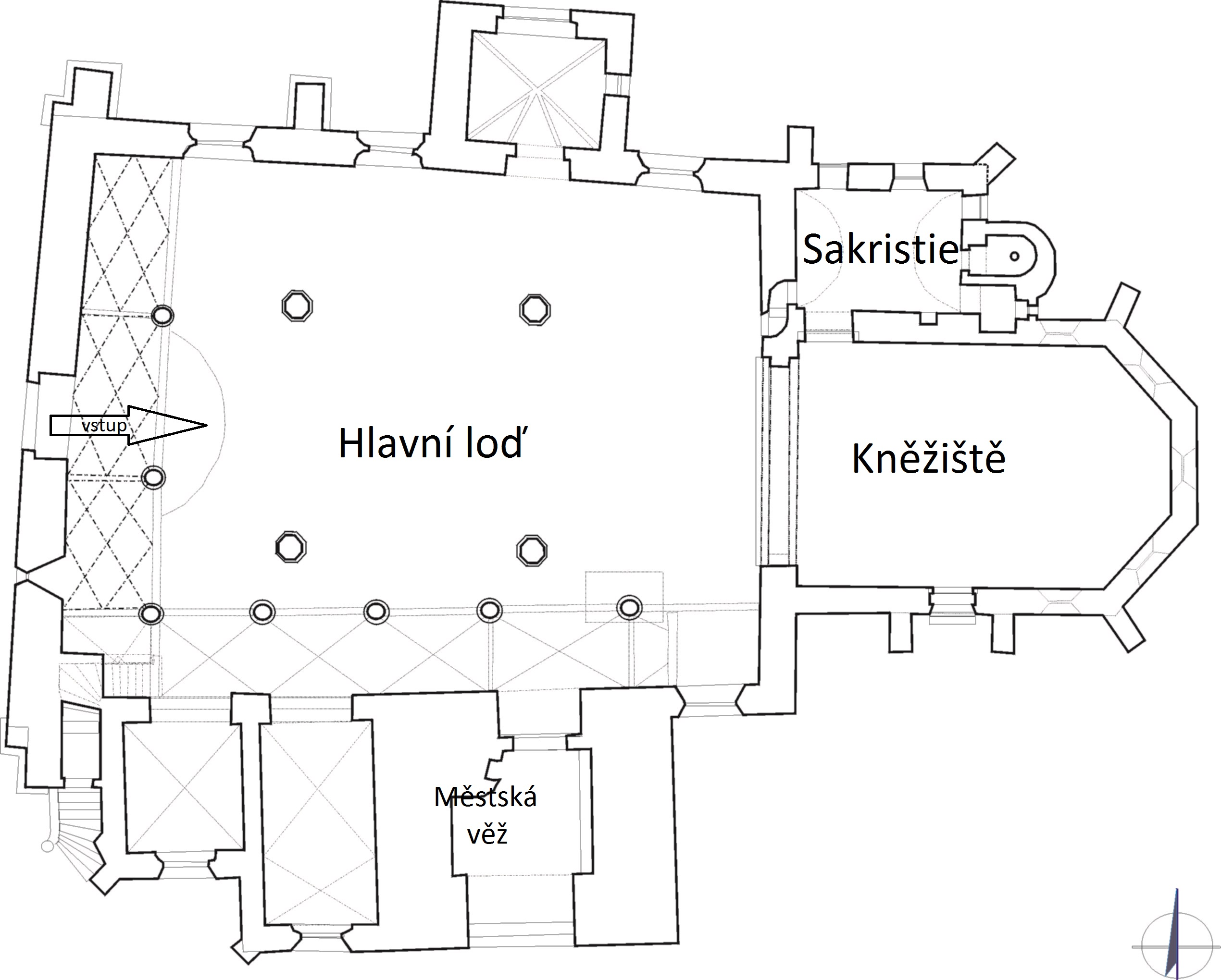 Kostel Nanebevzetí Panny Marie - půdorys